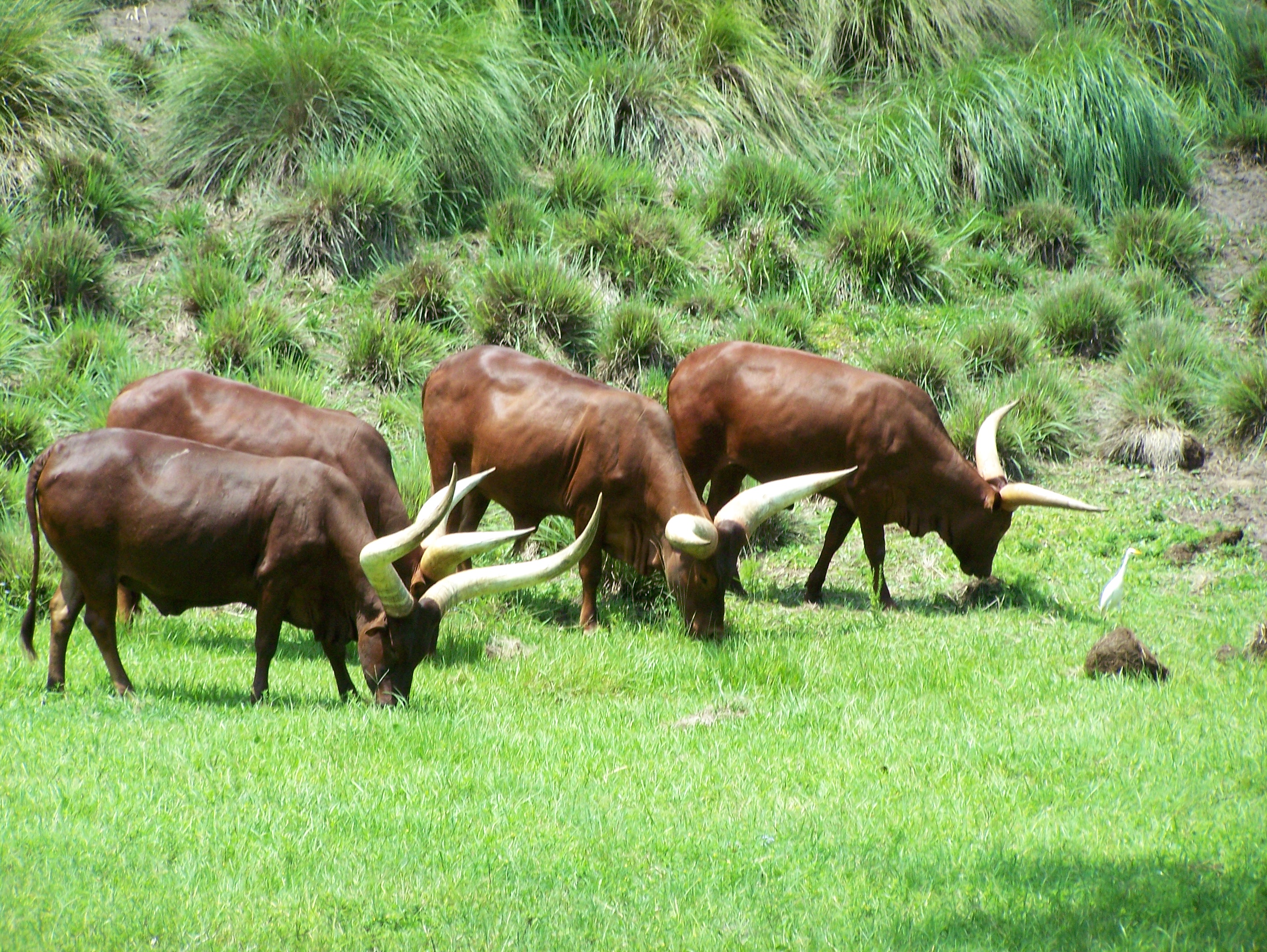 Watusi cattle